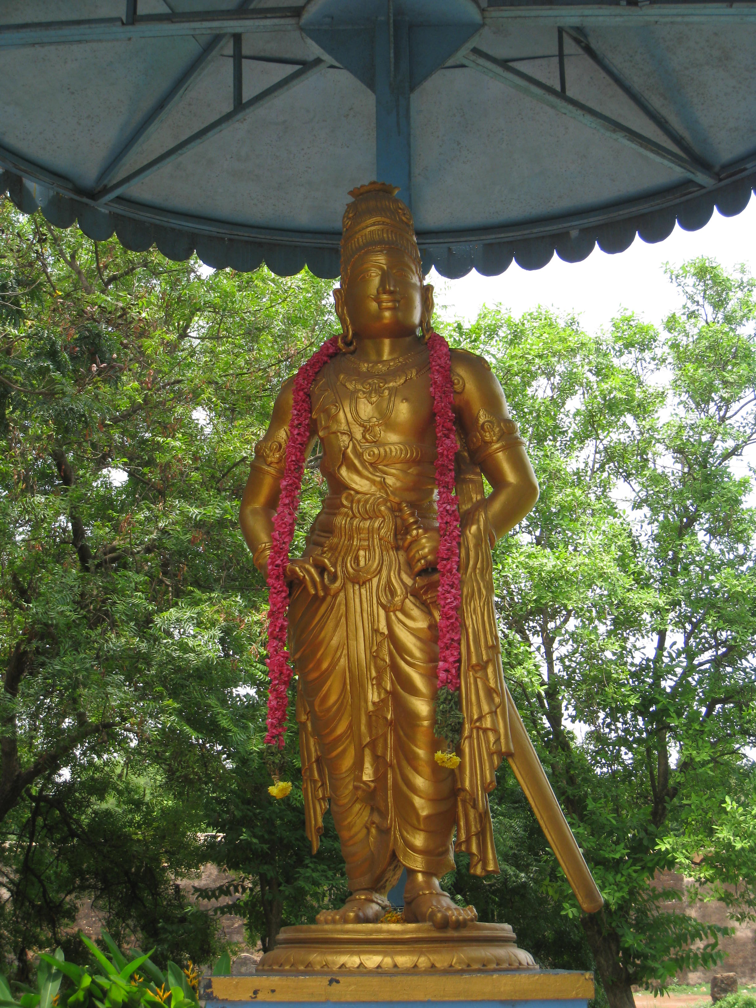 Statue of Rajaraja, Tamil Nadu, 20th century